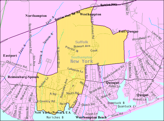 U.S. Census 2000 reference map for Westhampton